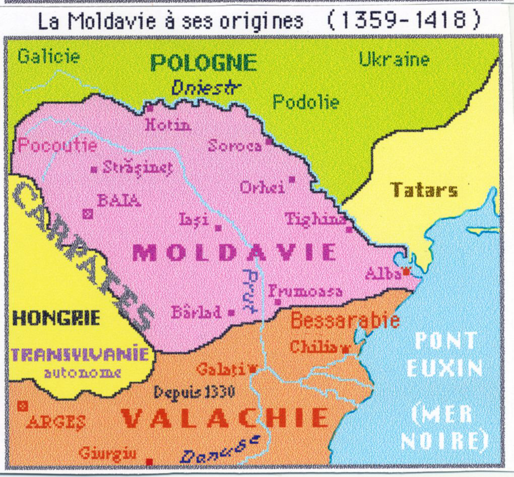 Map of Moldova/Moldavia 1359-1418